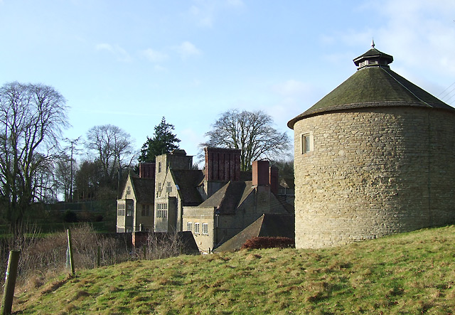 Dovecote and Shipton Hall, Shropshire Shipton Hall was built around 1587 by Richard Lutwyche to replace a much older, black and white, timbered house which was destroyed by fire earlier in the 16th century.